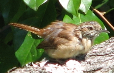 A scruffy looking Carolina Wren